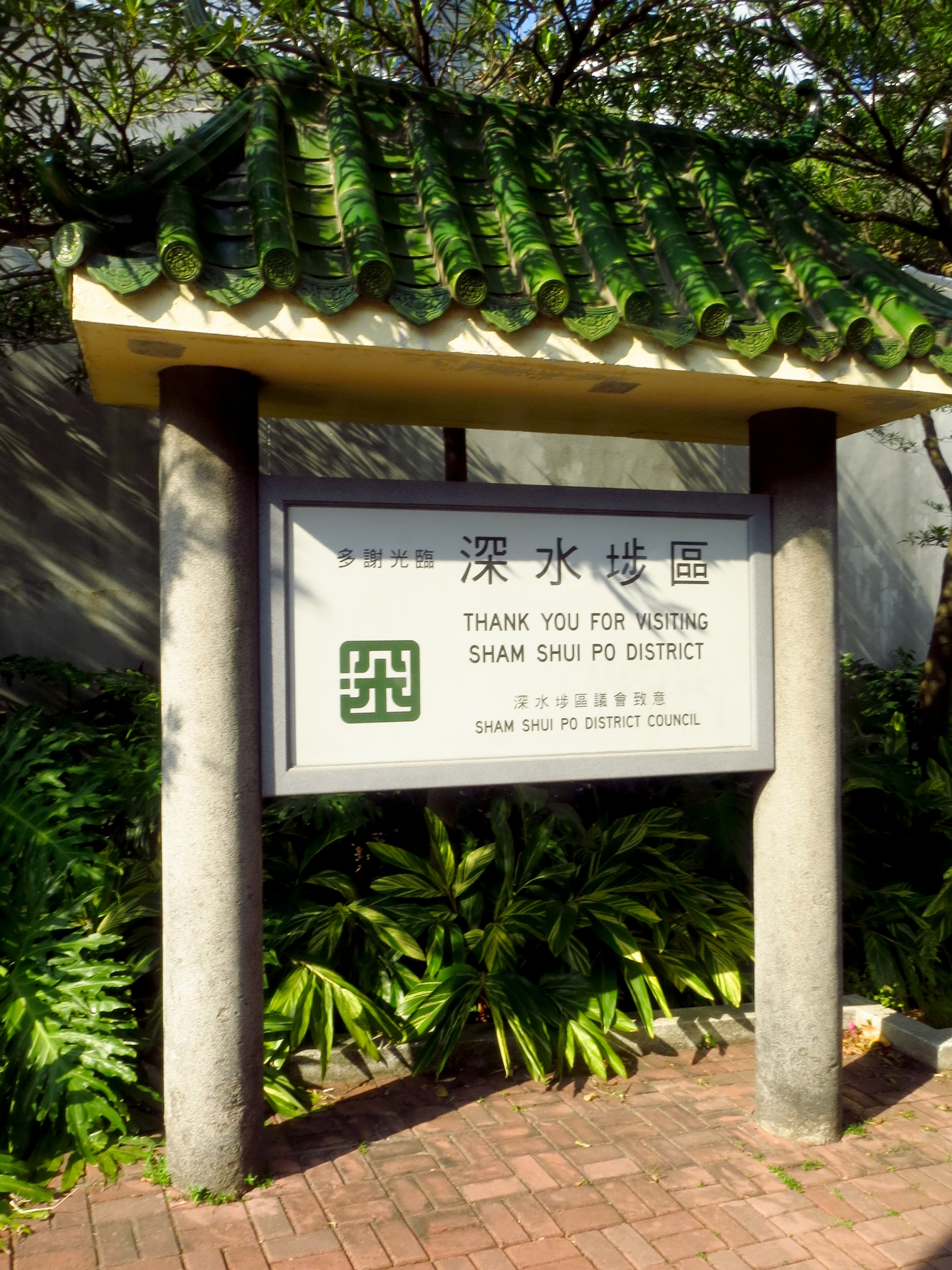 A welcoming sign indicating the eastern boundary of Sham Shui Po District on Cornwall Street near Tat Chee Avenue, Kowloon, Hong Kong.